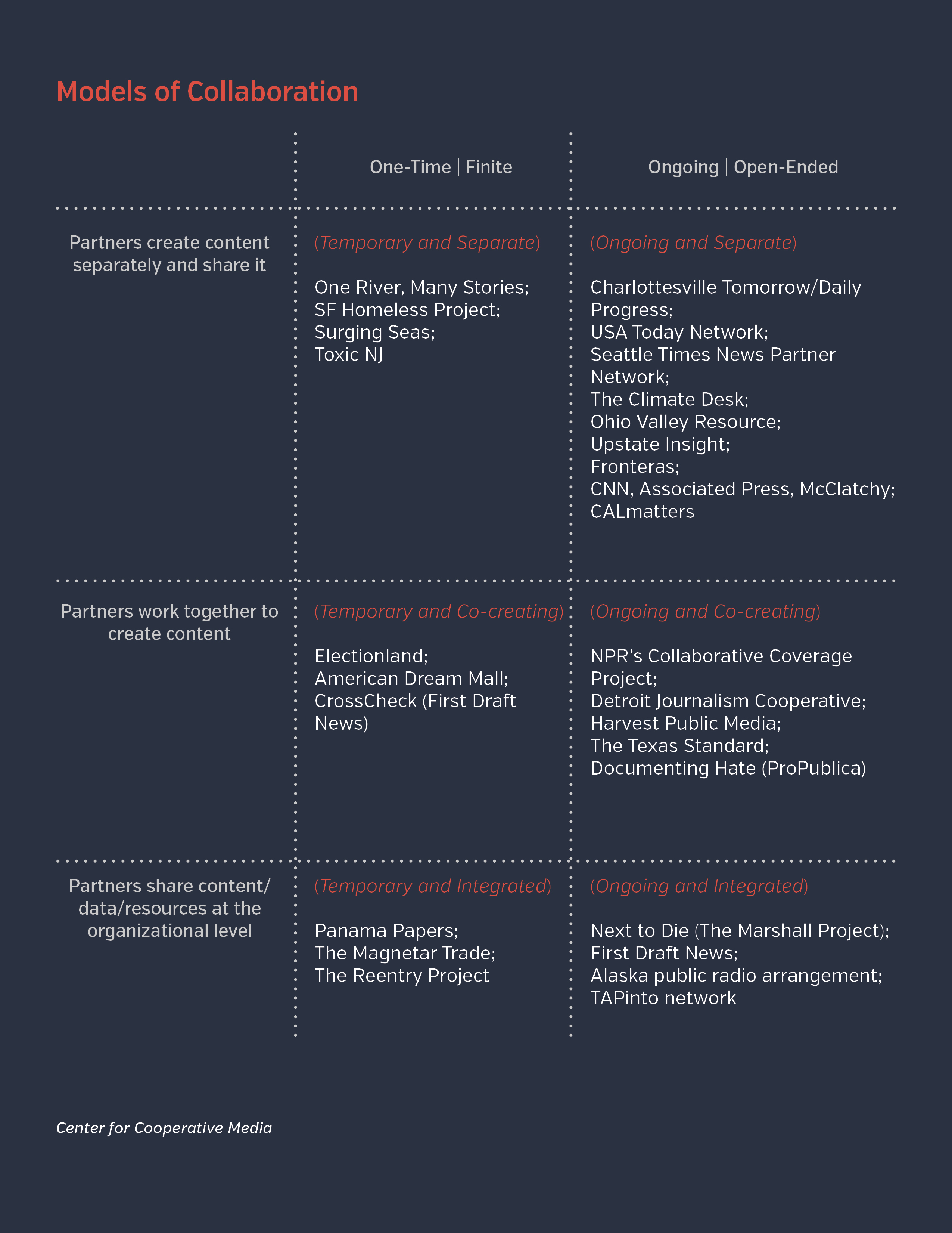 Matrix categorizing collaborations by the variables of duration and level of integration